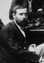 J. A. Watt of the Horn Scientific Expedition